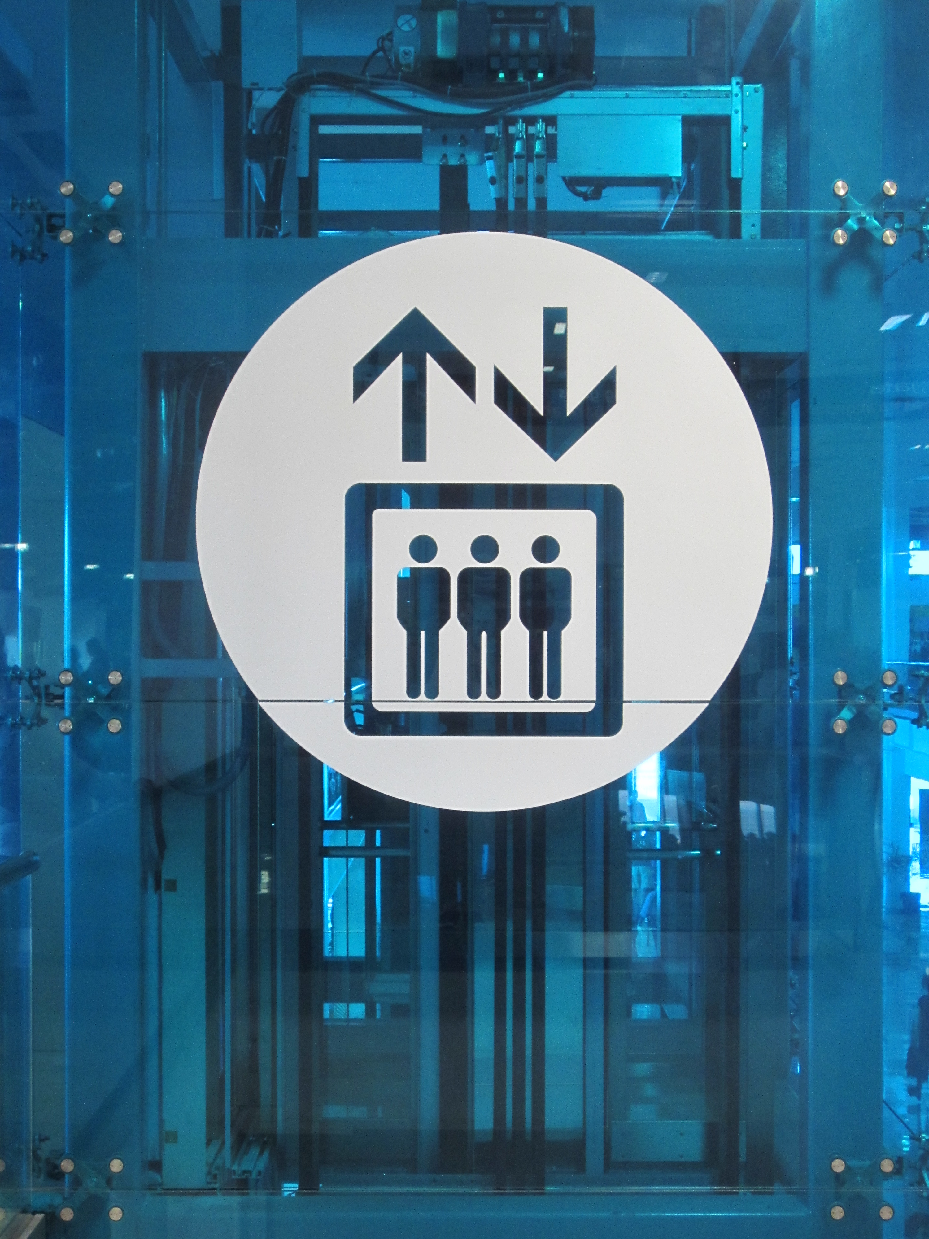 Licenciado Gustavo Díaz Ordaz International Airport in Puerto Vallarta, Jalisco, Mexico (2014)